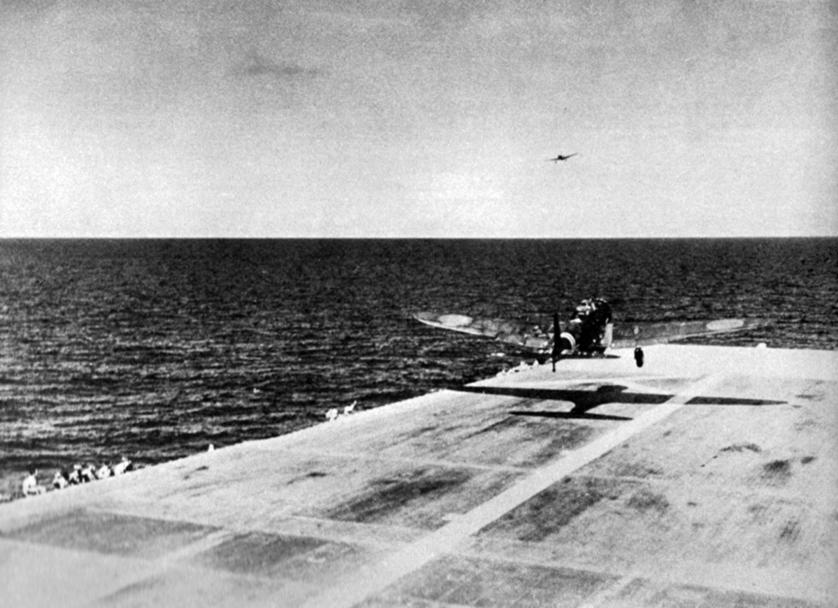 A Japanese B5N2 Kate taking off from the flight deck of the aircraft carrier Zuikaku for the attack on Pearl Harbor, at about 07:20h on 7 December 1941. Note the Aichi D3A1 Val in the background.